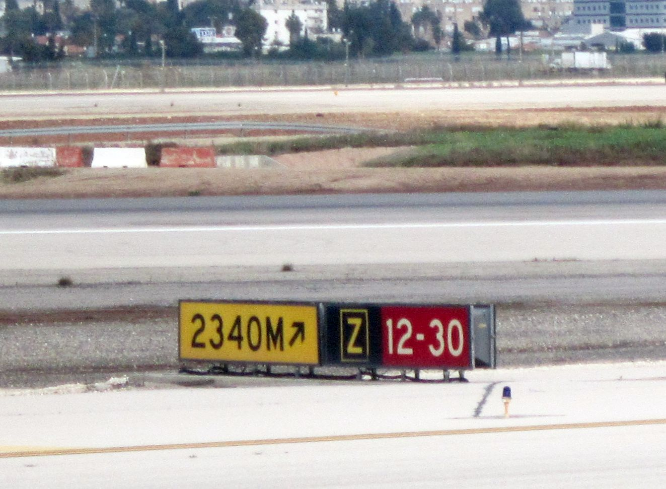 Taxiway signs at Ben Gurion International Airport, showing three sign types at once (direction sign, location sign, runway sign)